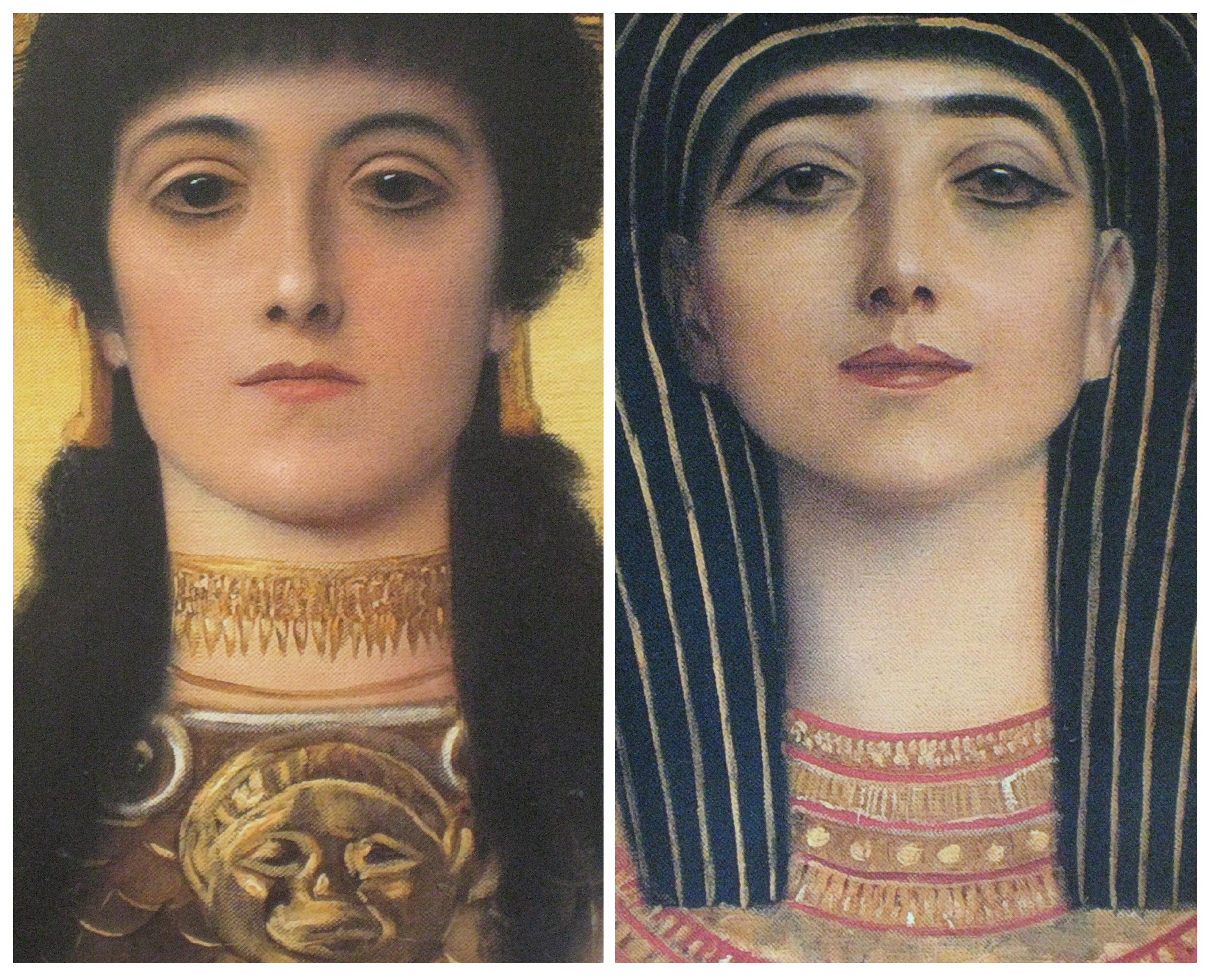 Gustav Klimt: Ancient Greece and Ancient Egypt, detail heads of Athena and Isis (Ceiling above the grand staircase, Kunsthistorisches Museum, Vienna)